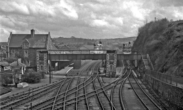 Barnstaple Junction Station. View SE, towards Exeter; ex-London & South Western Exeter - Barnstaple Junction - Ilfracombe, Bideford and Torrington lines. The Ilfracombe line is bearing left, while the line to Bideford and Torrington runs directly underneath. On 5/10/70 when the Ilfracombe line was closed, this formerly important junction became the terminus of the line from Exeter, the Torrington line having been closed on 4/10/65.